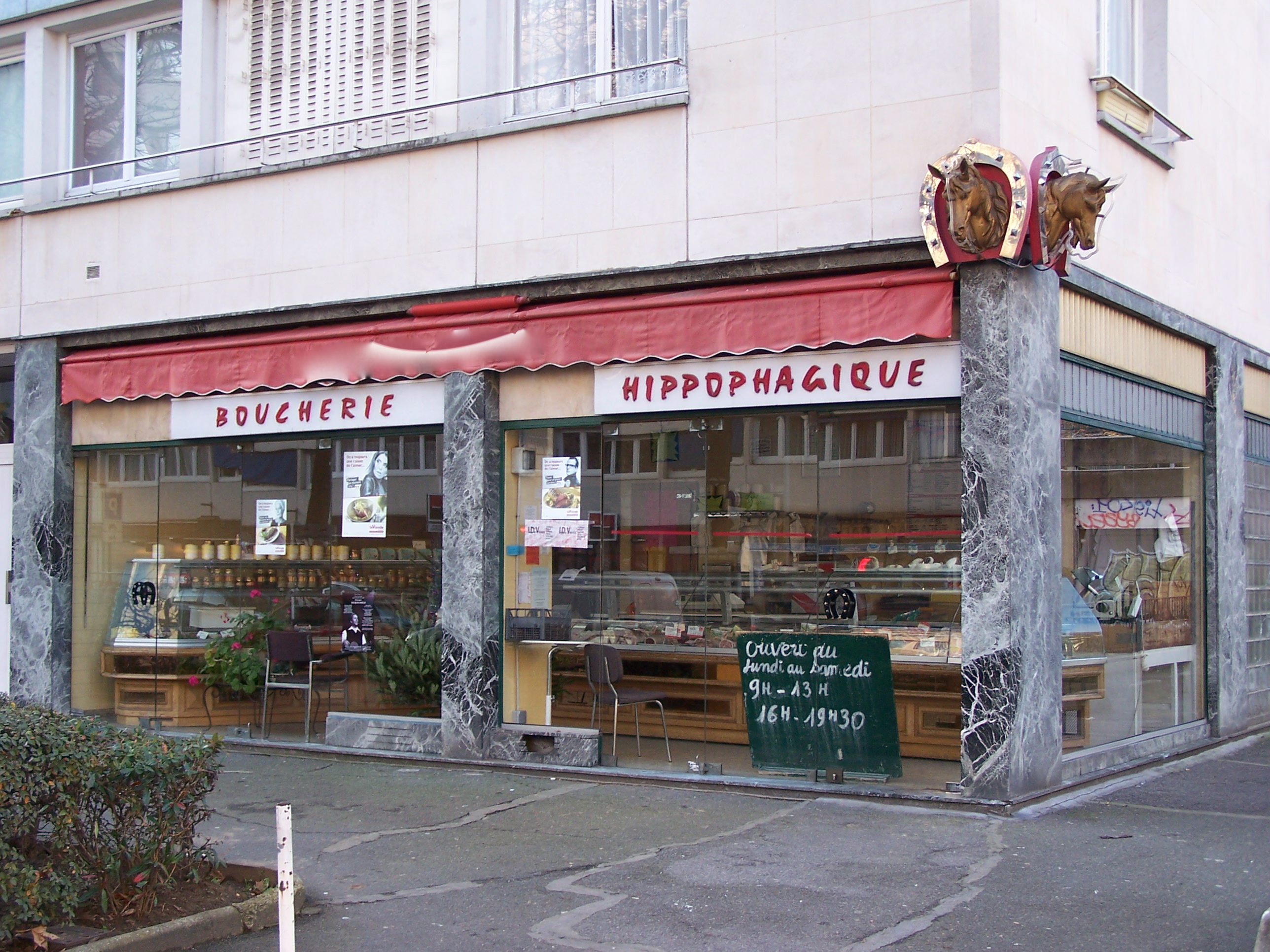 Butcher's shop of horse meat at rue de la Glacière in Paris.